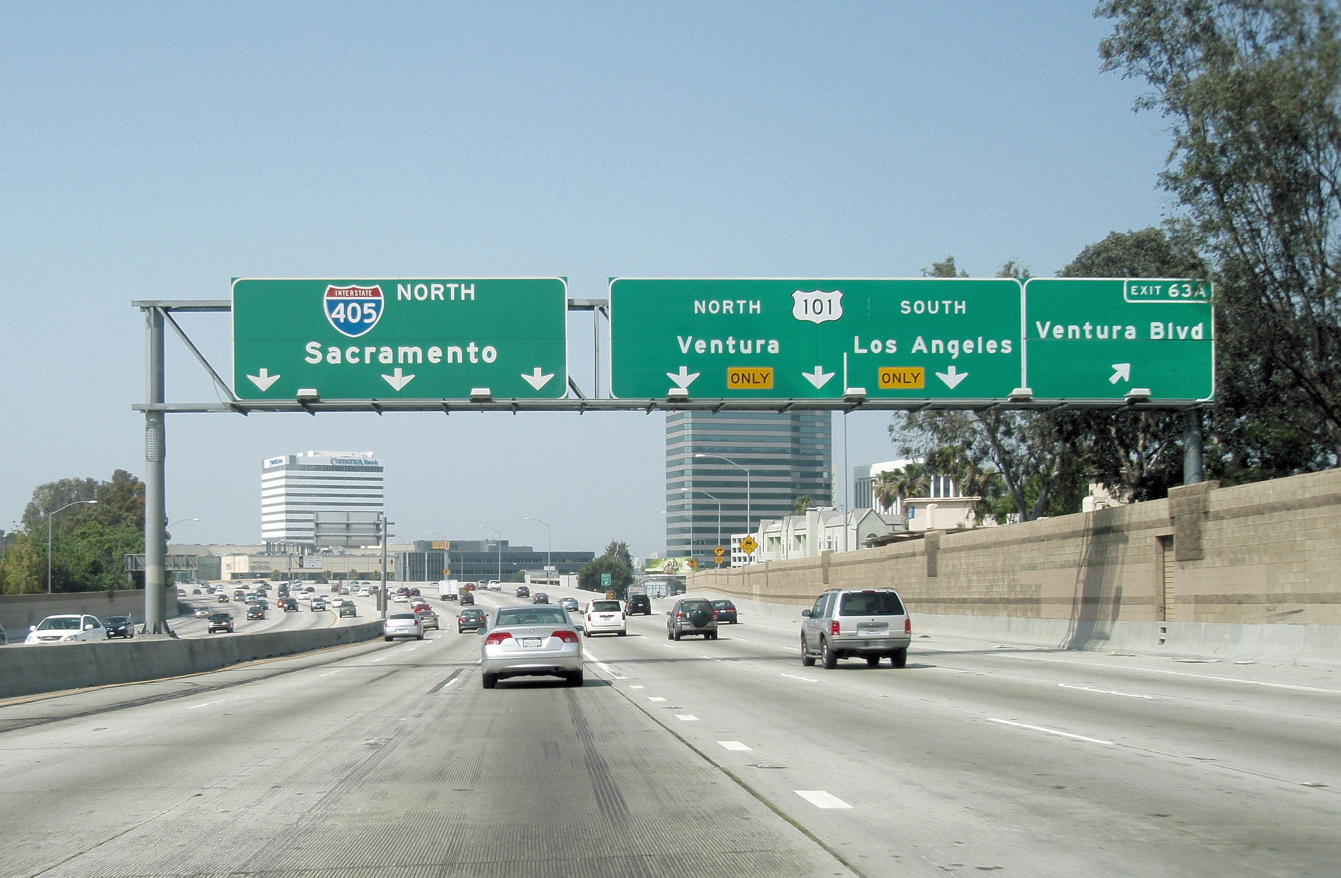 The San Diego Freeway northbound approaching the Ventura Blvd and Ventura Freeway interchanges, as photographed by Coolcaesar on May 11, 2008 (this version replaces an earlier photo by Coolcaesar taken on July 3, 2004).